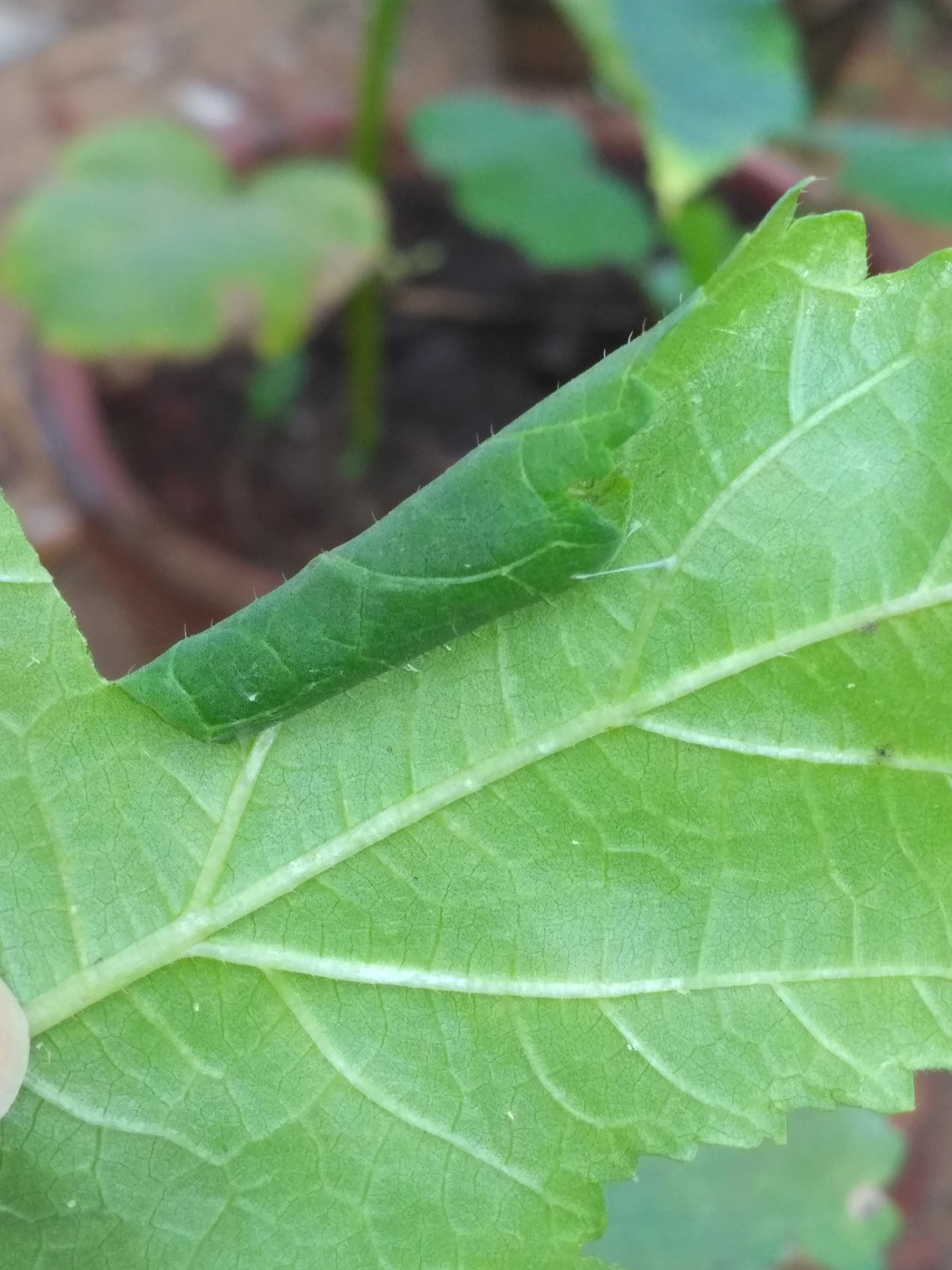 Symptoms of bhindi pest attack